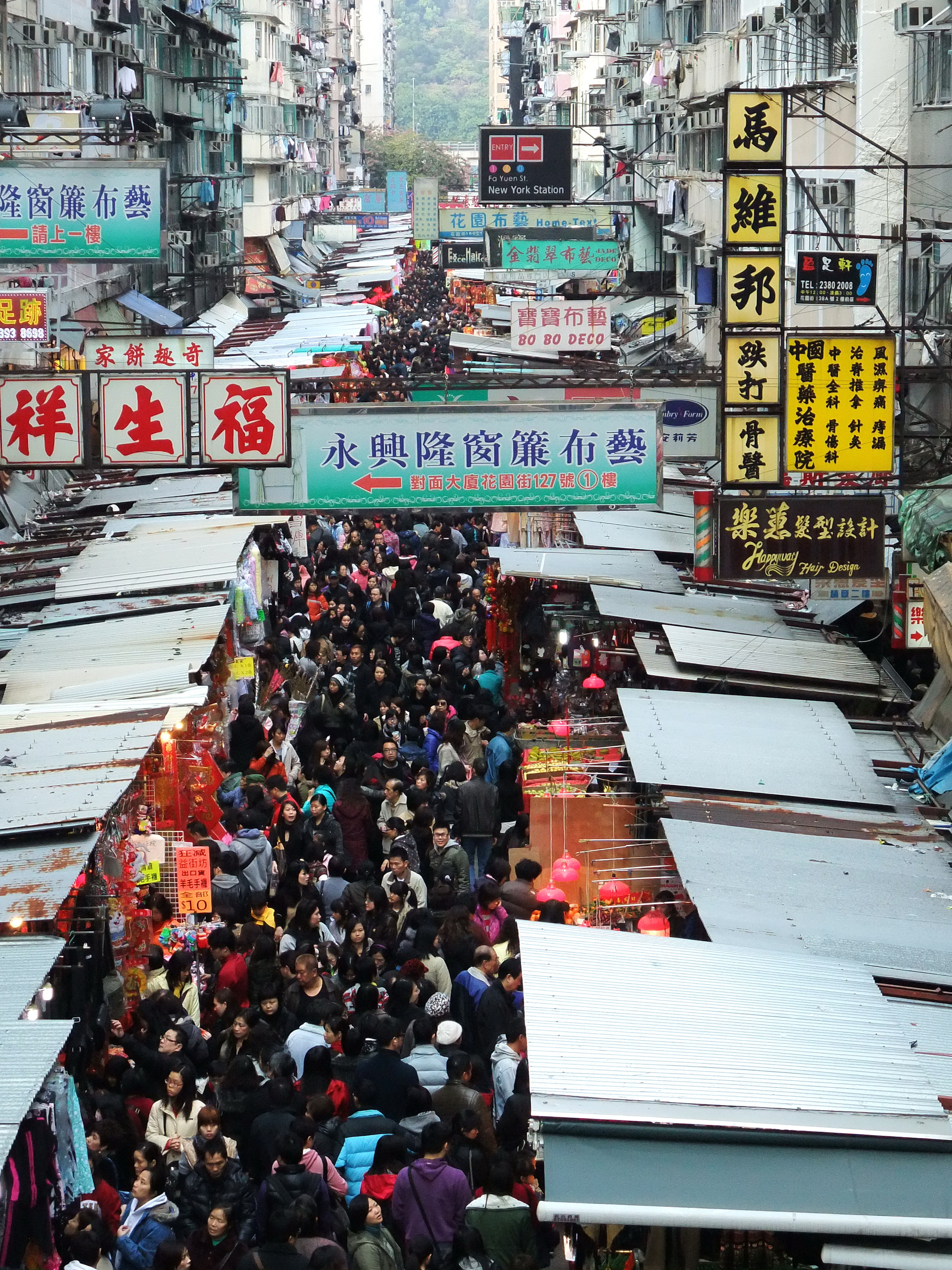 Fa Yuen Street near Mong Kok Road, Kowloon, Hong Kong.